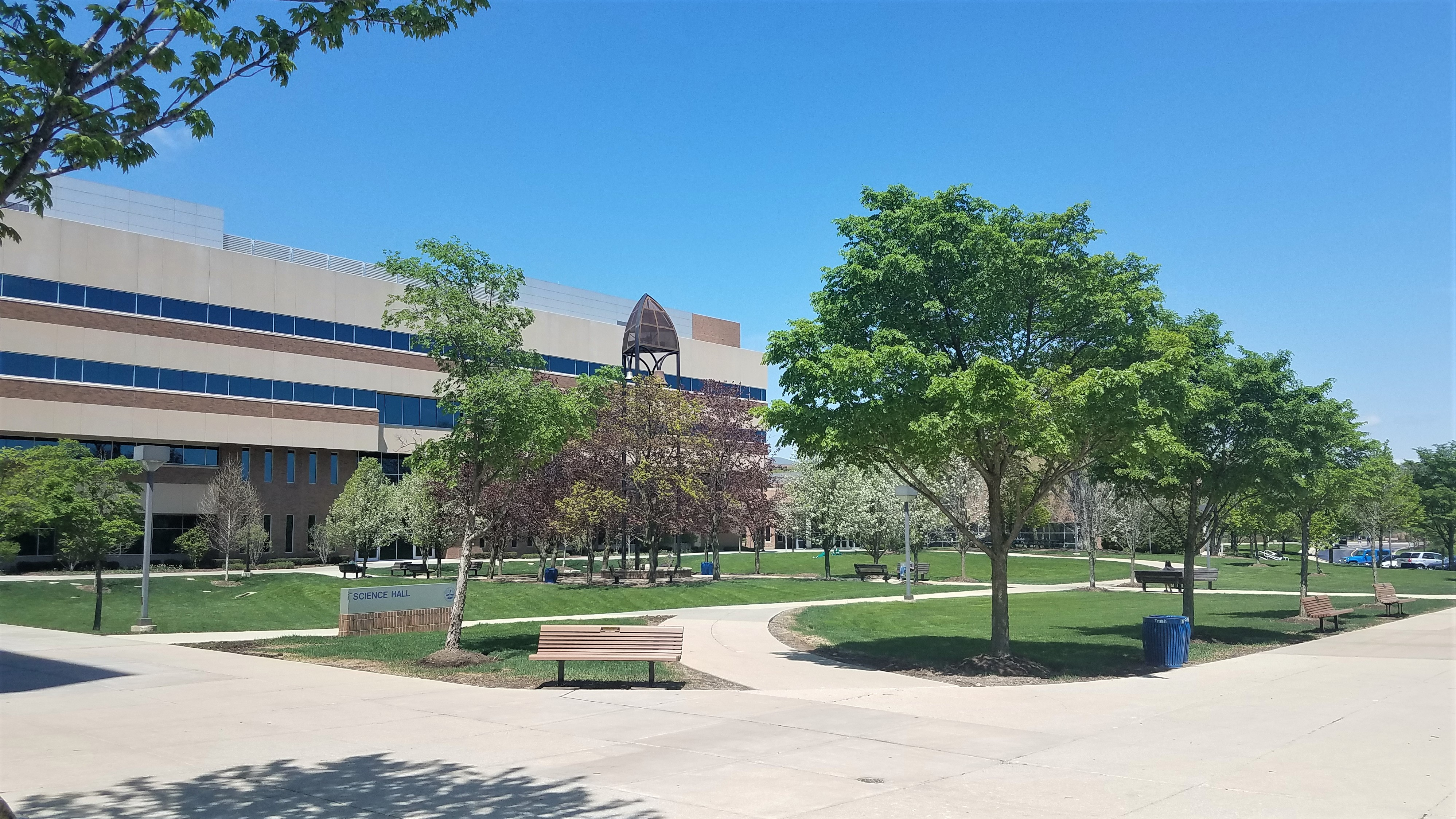 Cardinal Hall (background) on the Downers Grove campus of Midwestern University.